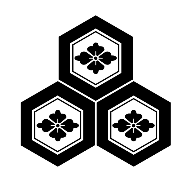 Japanese crest "mitsumori kikkou ni hanabishi"